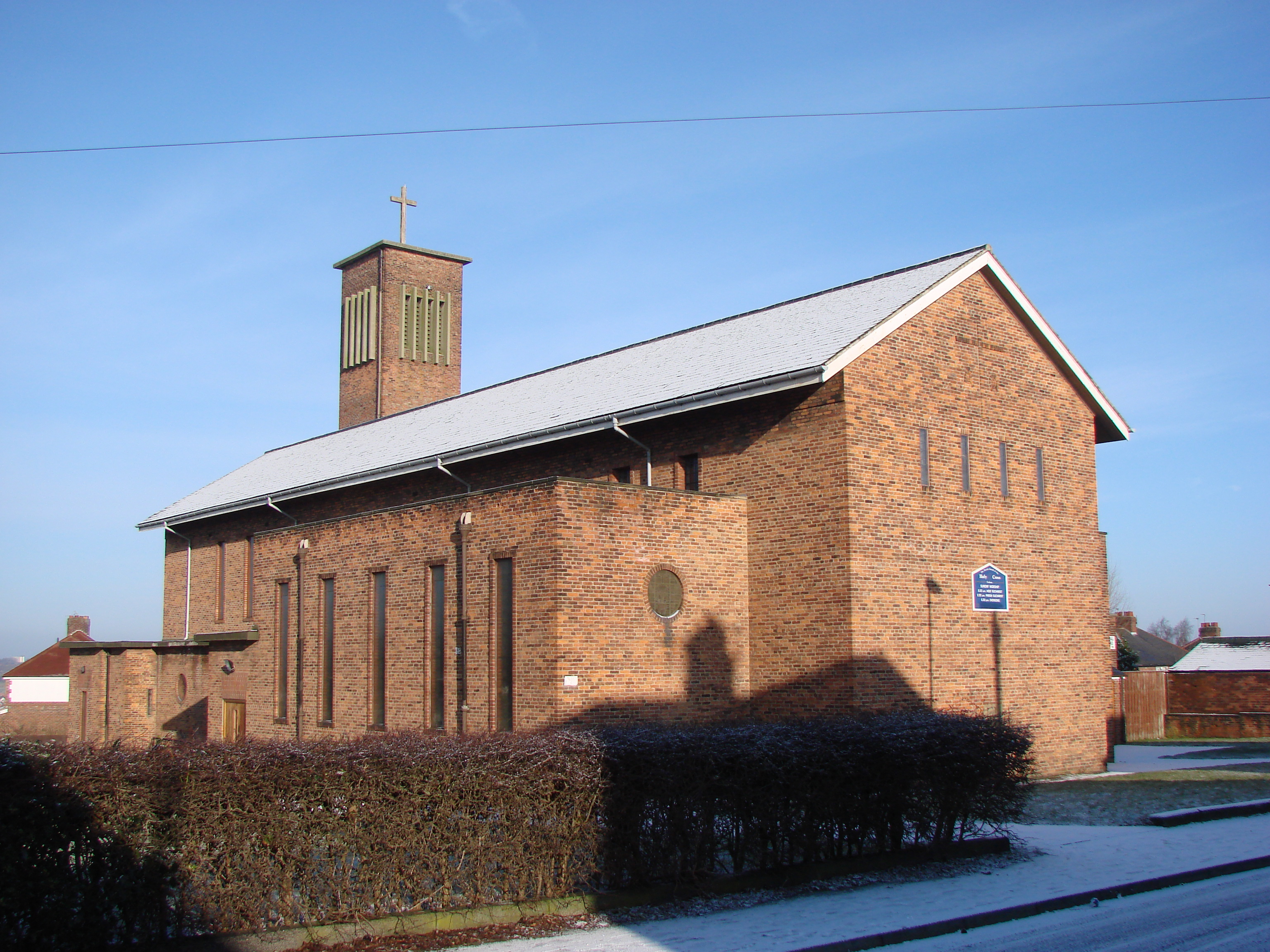 Church of the Holy Cross, near to Newcastle Upon Tyne, Great Britain.